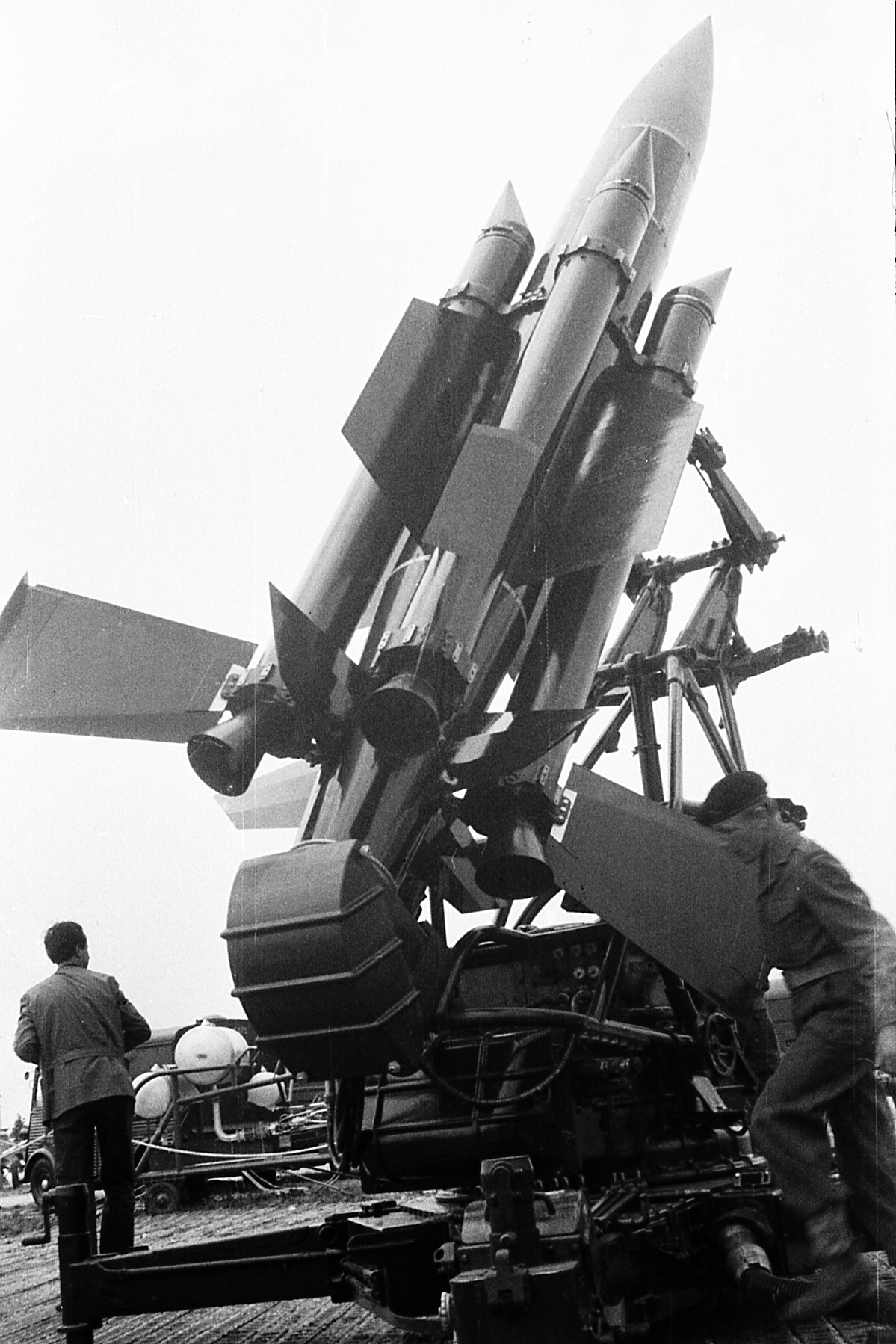 English Electric Thunderbird missiles, exhibition in Paris